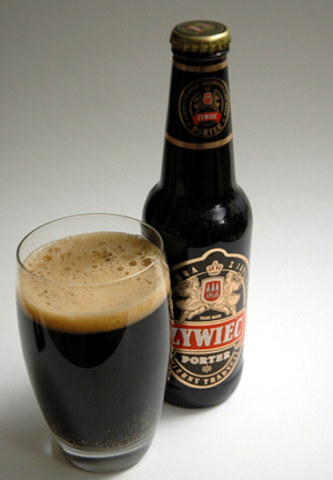 A glass and a bottle of Żywiec porter.